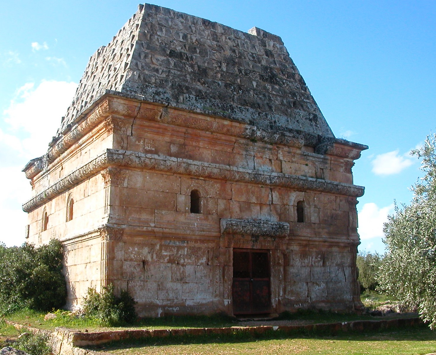 Pyramid tomb in the 'Dead City' of Al-Bara (Syria)